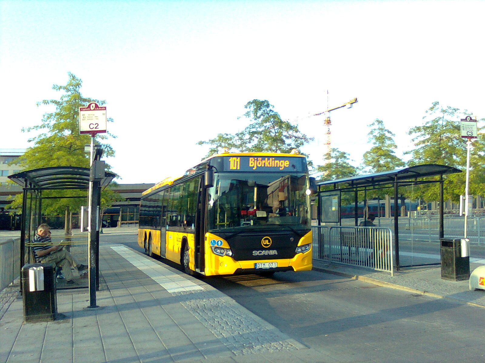 A Scania Citywide bus in Uppsala, Sweden.